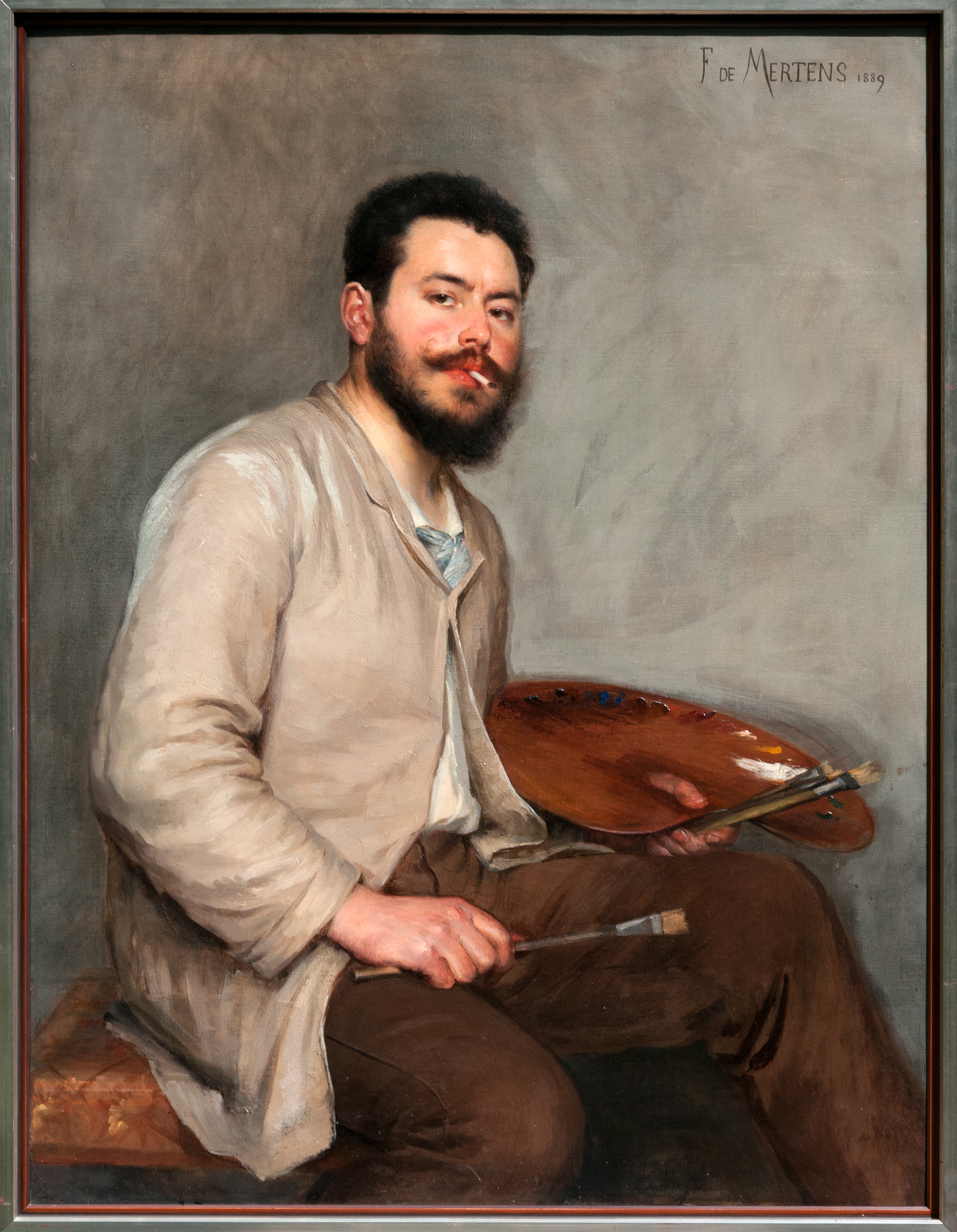 Oil painting by Fernande de Mertens depicting the painter Pierre Jean, her husband.